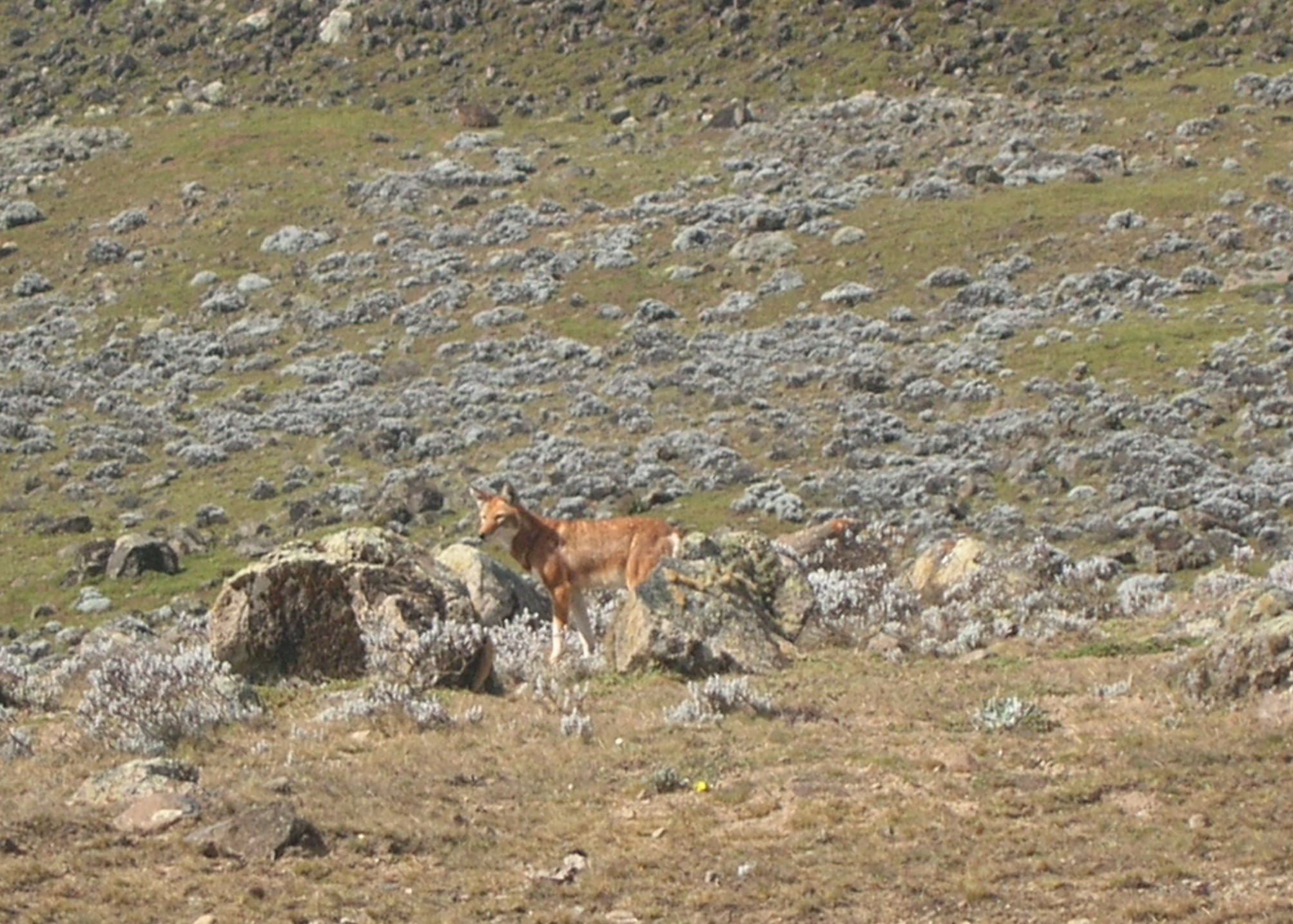 An endangered Ethiopian (Simien or Abyssinian) Wolf scouting for food on the Sanetti Plateau.